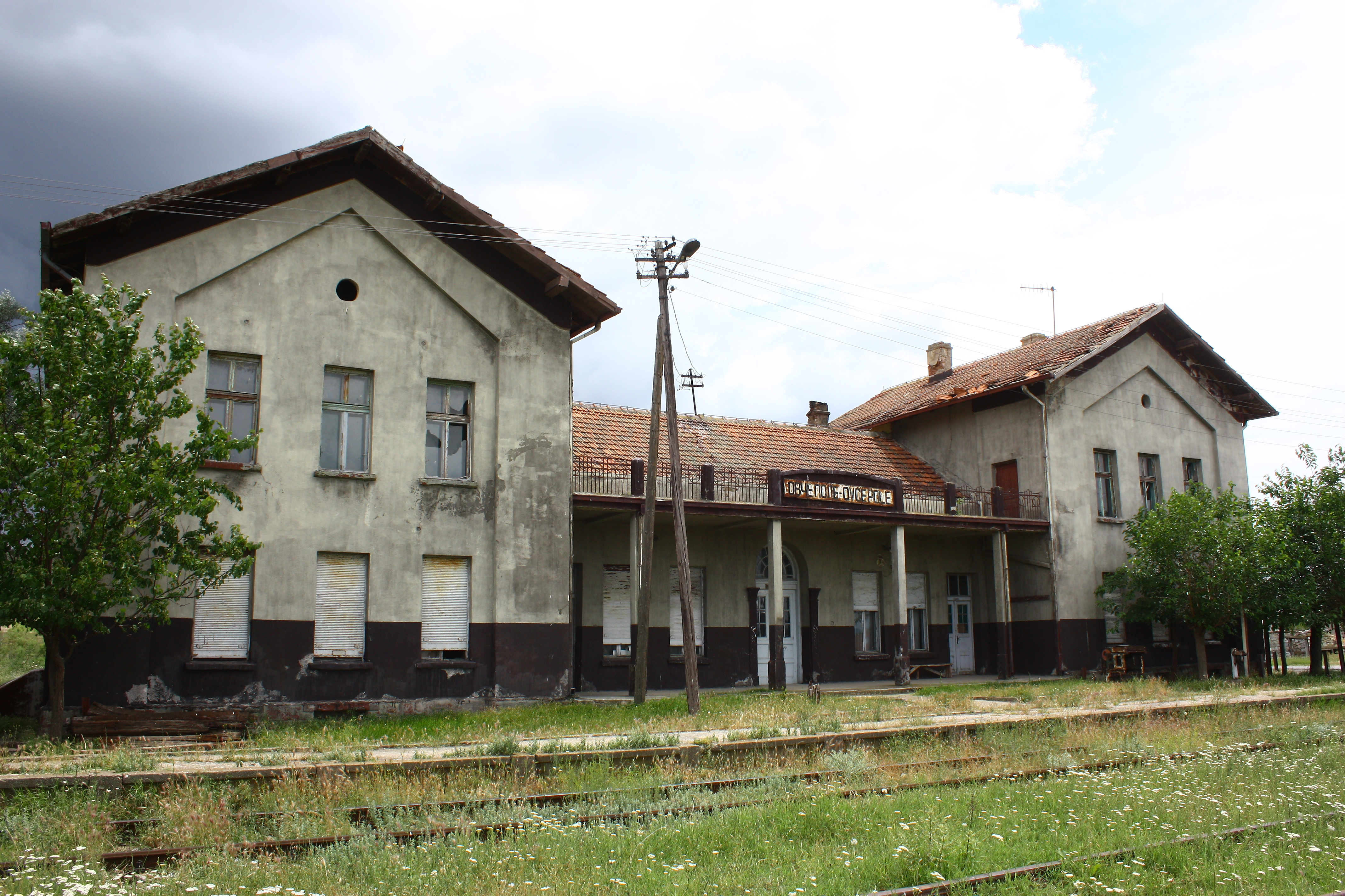 Ovče Pole Train station near Amzabegovo, Macedonia This image is uploaded as part of the picture contest Wiki Loves Cultural Heritage in Macedonia 2013. English | македонски | +/−